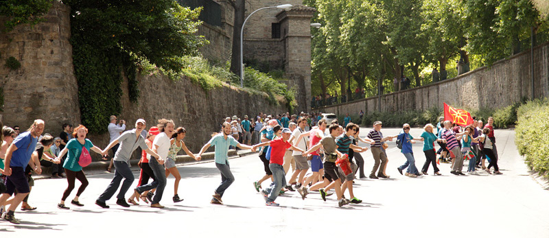 Human Chain For the Right to Decide of the Basque Country. 8th june 2014.